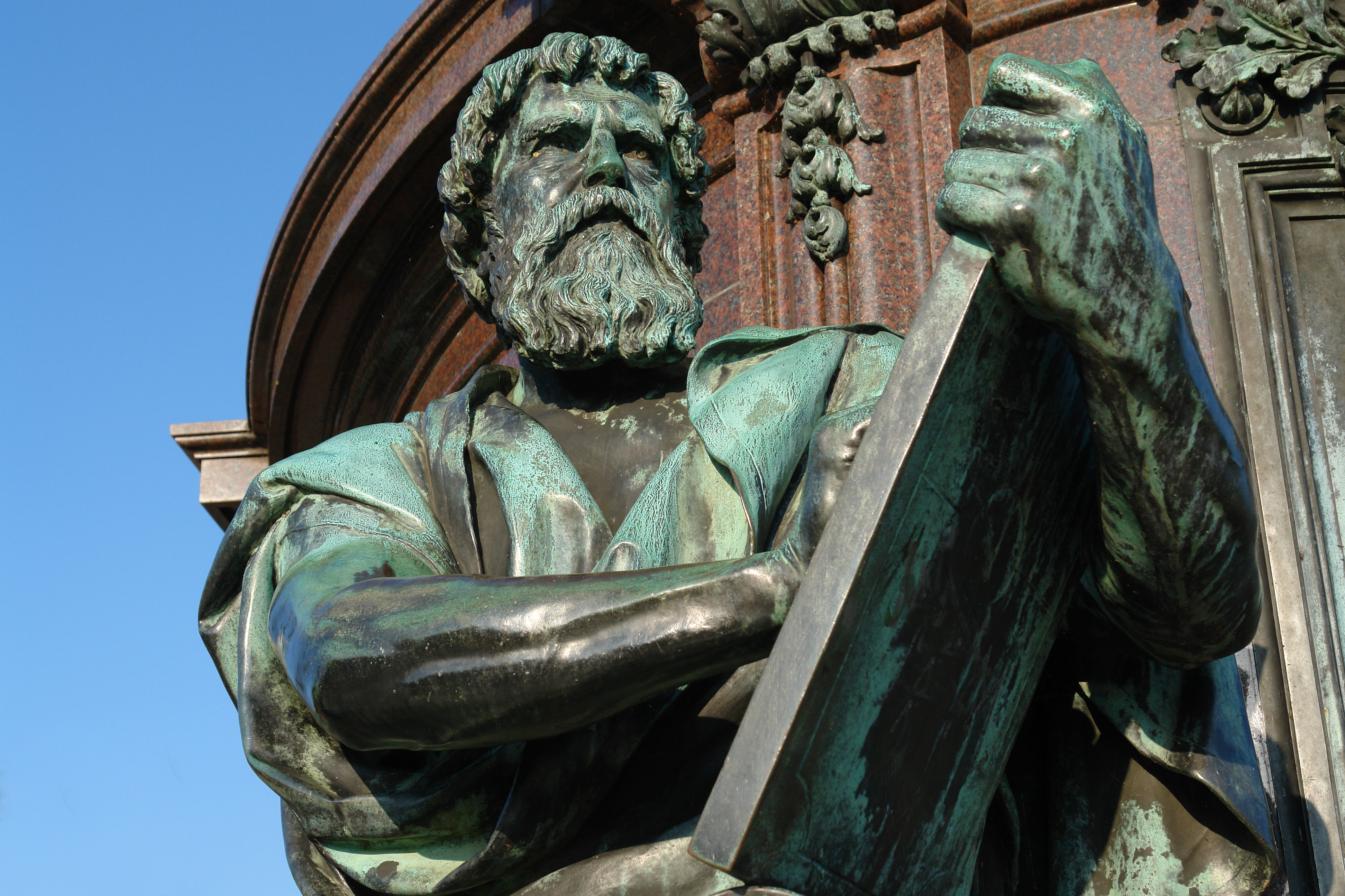 Detail on the Statue of Friedrich Franz II.